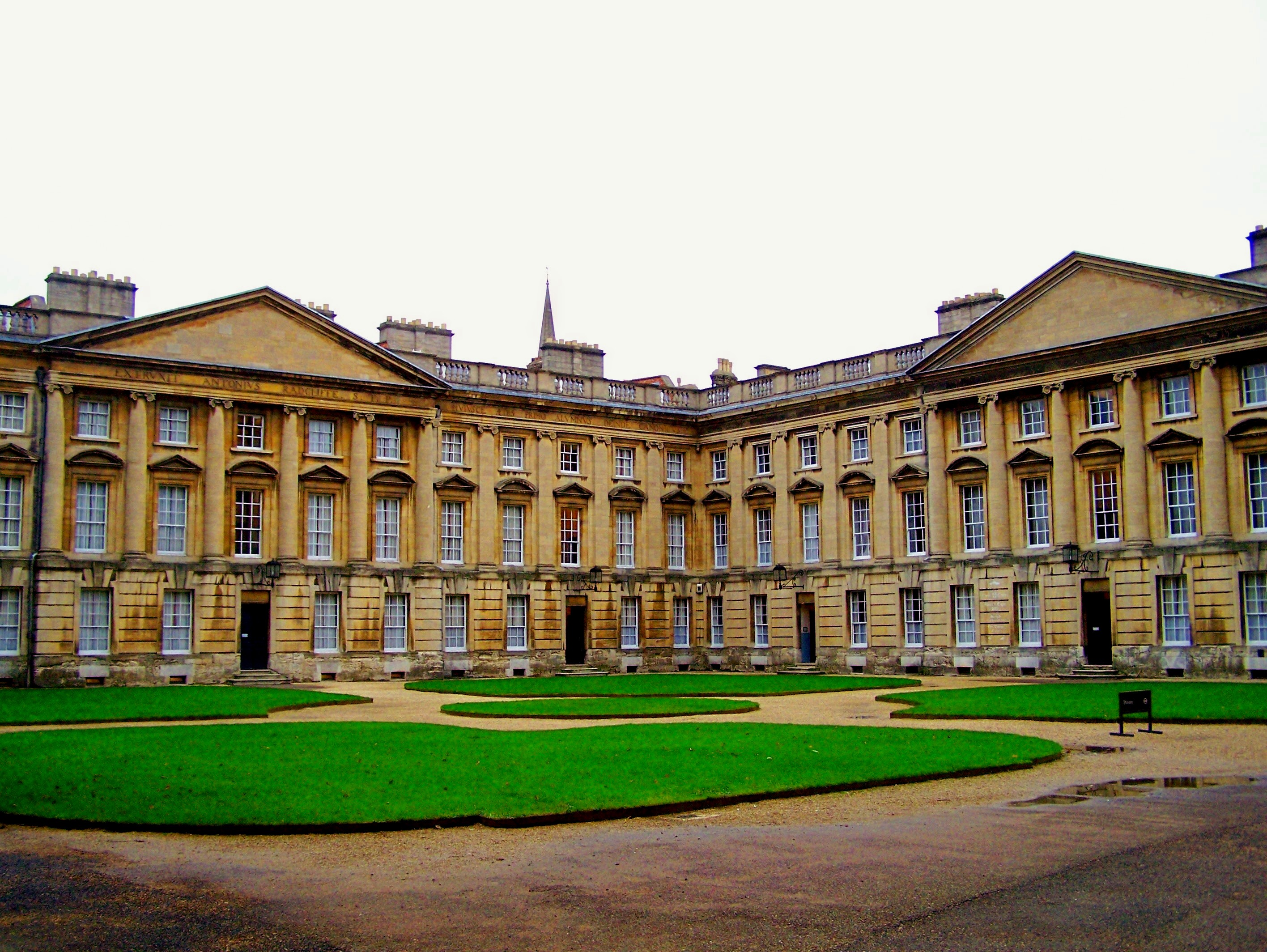 Template:Peckwater Quadrangle, Christ Church, Oxford